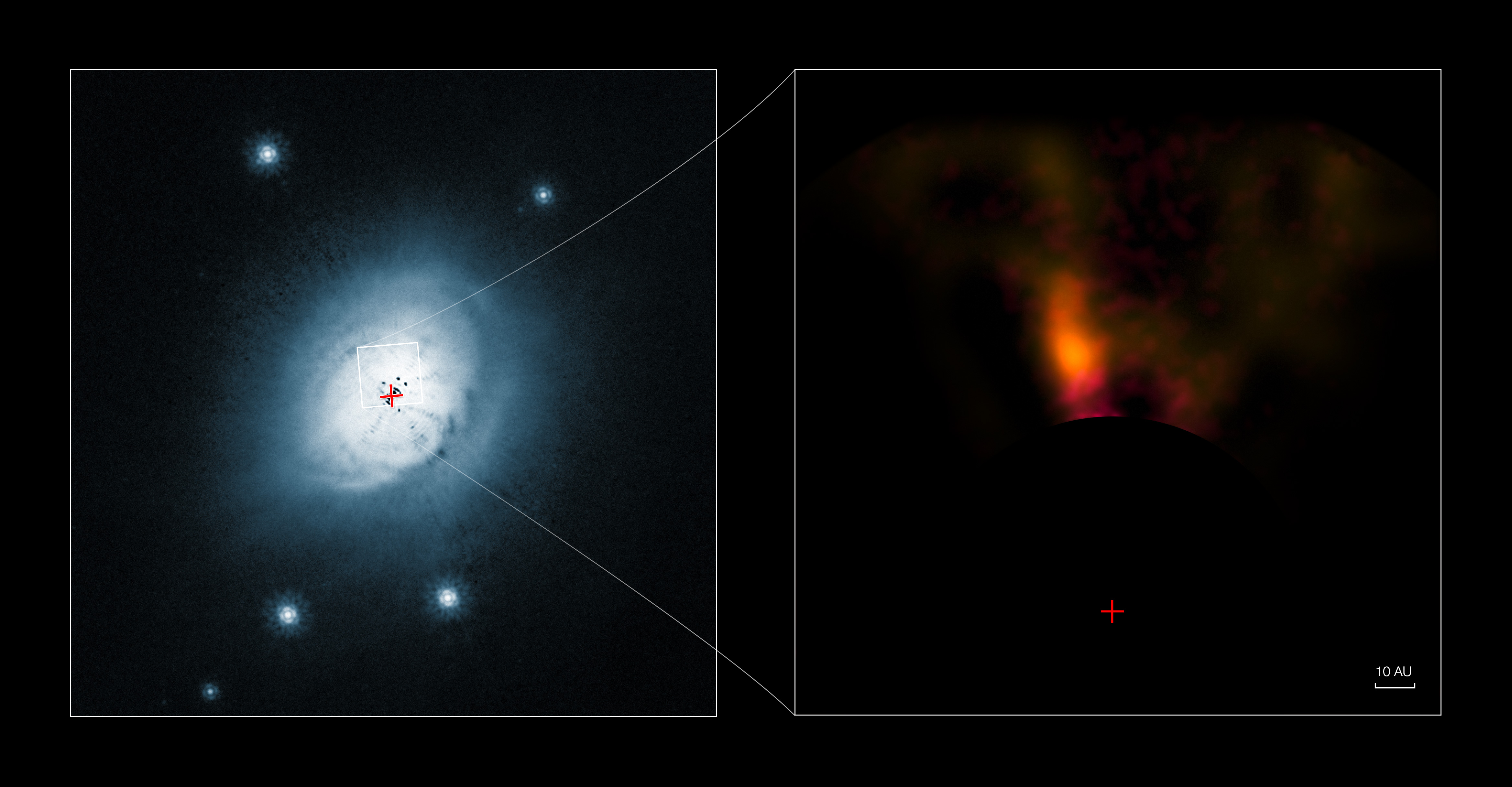 This composite image shows a view from the NASA/ESA Hubble Space Telescope (left) and from the NACO system on ESO’s Very Large Telescope (right) of the gas and dust around the young star HD 100546. The Hubble visible-light image shows the outer disc of gas and dust around the star. The new infrared VLT picture of a small part of the disc shows a candidate protoplanet. Both pictures were taken with a special coronagraph that suppresses the light from the brilliant star. The position of the star is marked with a red cross in both panels.